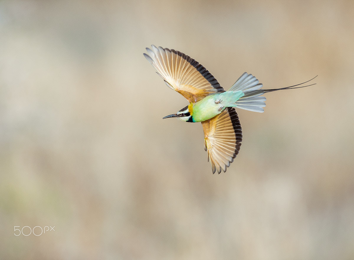 500px provided description: Taken in Kenya White-throated Bee-eater, thank you to watch. [#birds ,#animal ,#africa ,#kenya ,#bee-eaters]